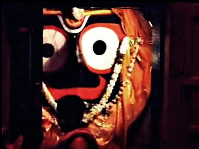 Sanctum Sanctorum on Lord Jagannath at Jagannth Temple, Puri